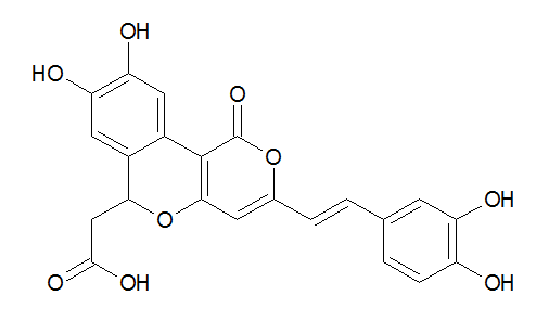 Chemical structure of phellibaumin B